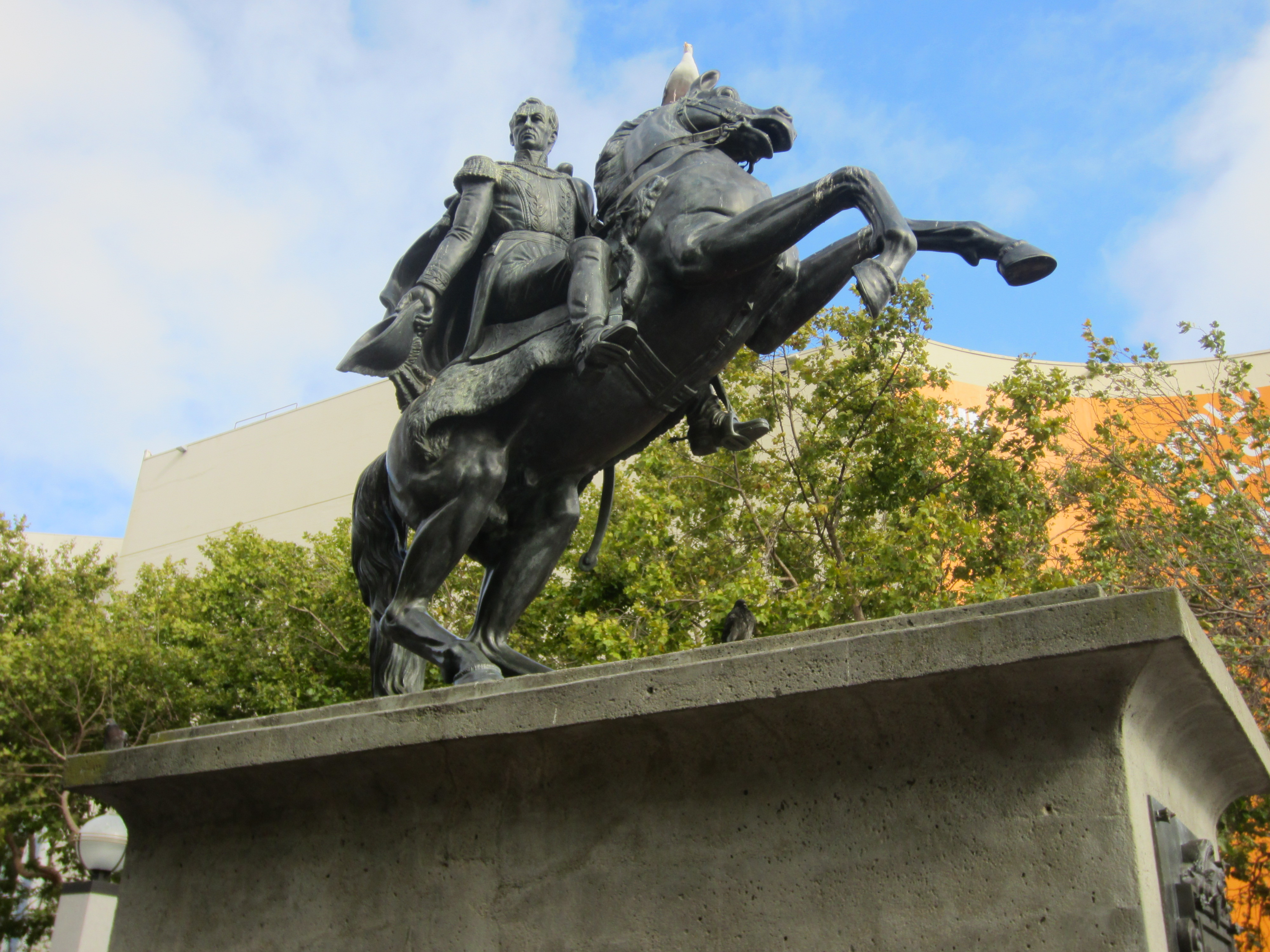 Simon Bolivar statue in San Francisco (2013)